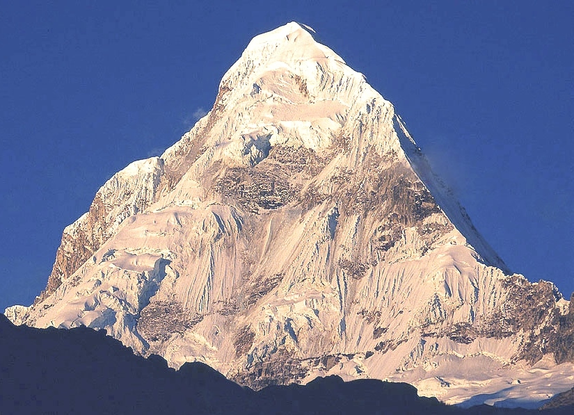 Mount Santa Cruz, Peru